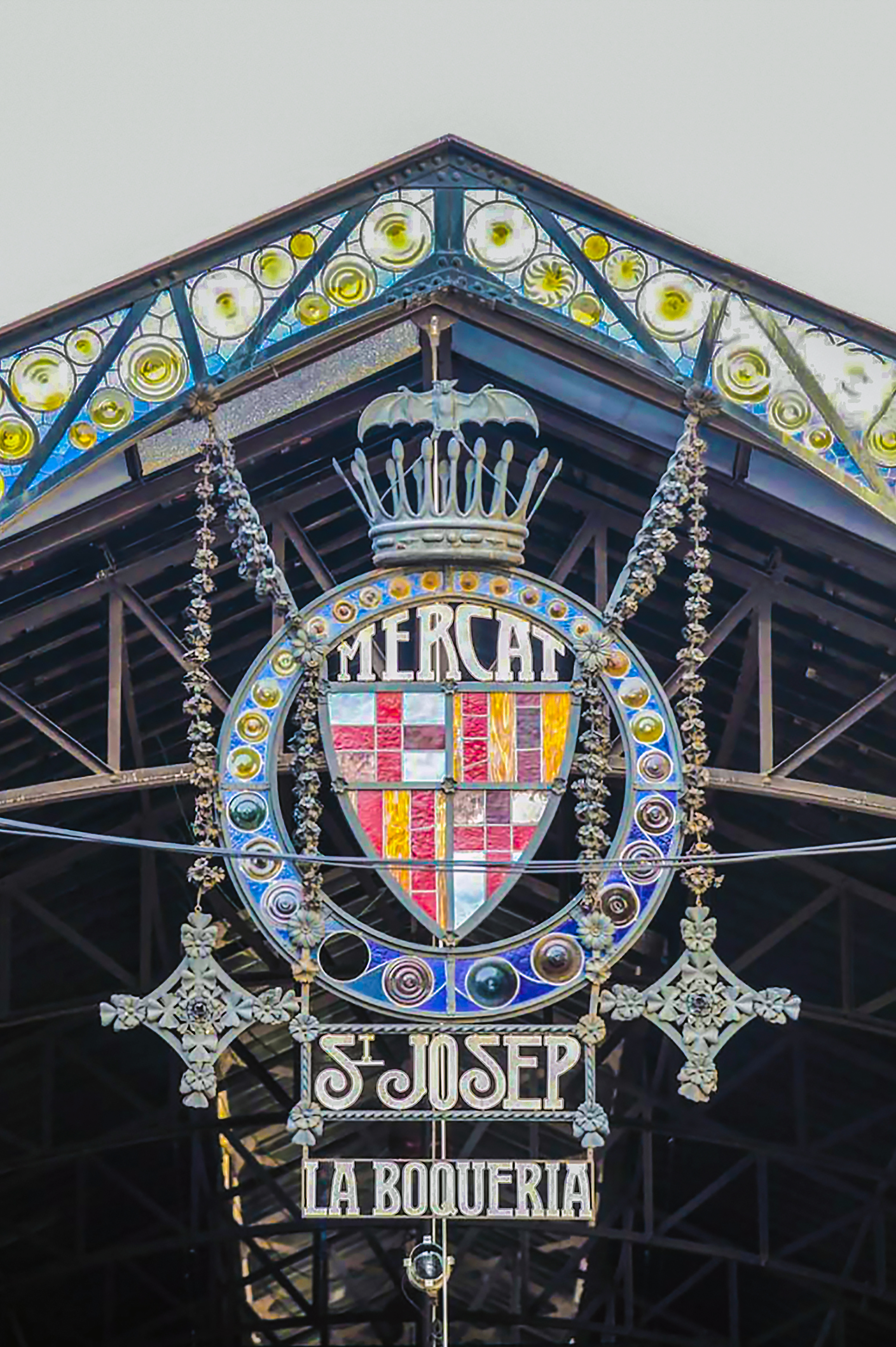 Entrance to Mercat de la Boqueria